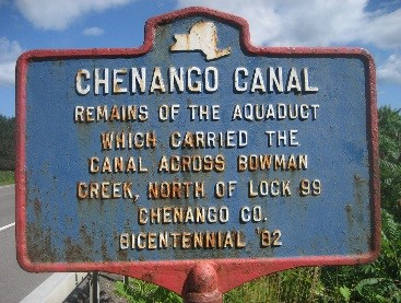 Historic marker #15 Chenango Canal. Remains of the aqueduct that carried the canal across Bowman Creek, north of Lock 99, Oxford, NY.